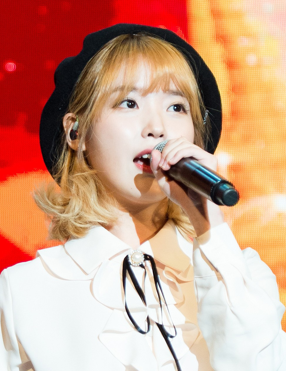 IU at Posco Concert, 9 September 2017